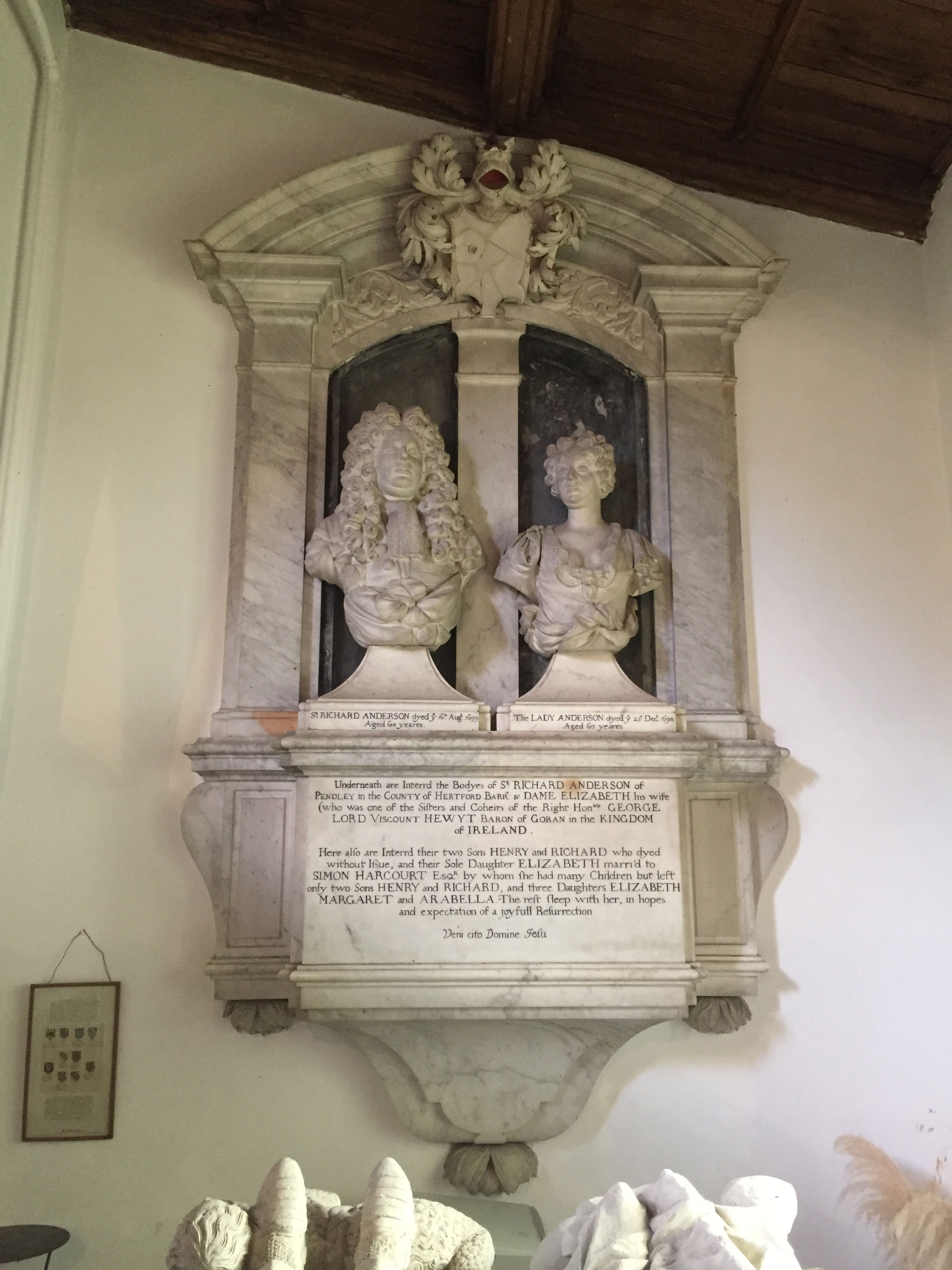 St. John the Baptist, Aldbury, Hertfordshire - monument to Sir Richard Anderson (1635-1699) of Pendley Manor and to his wife Elizabeth (1631-1698), sister of George, Viscount Hewwett. The Anderson are represented as a pair of busts surrounded by marble pilasters surmounted by an segmental pediment.